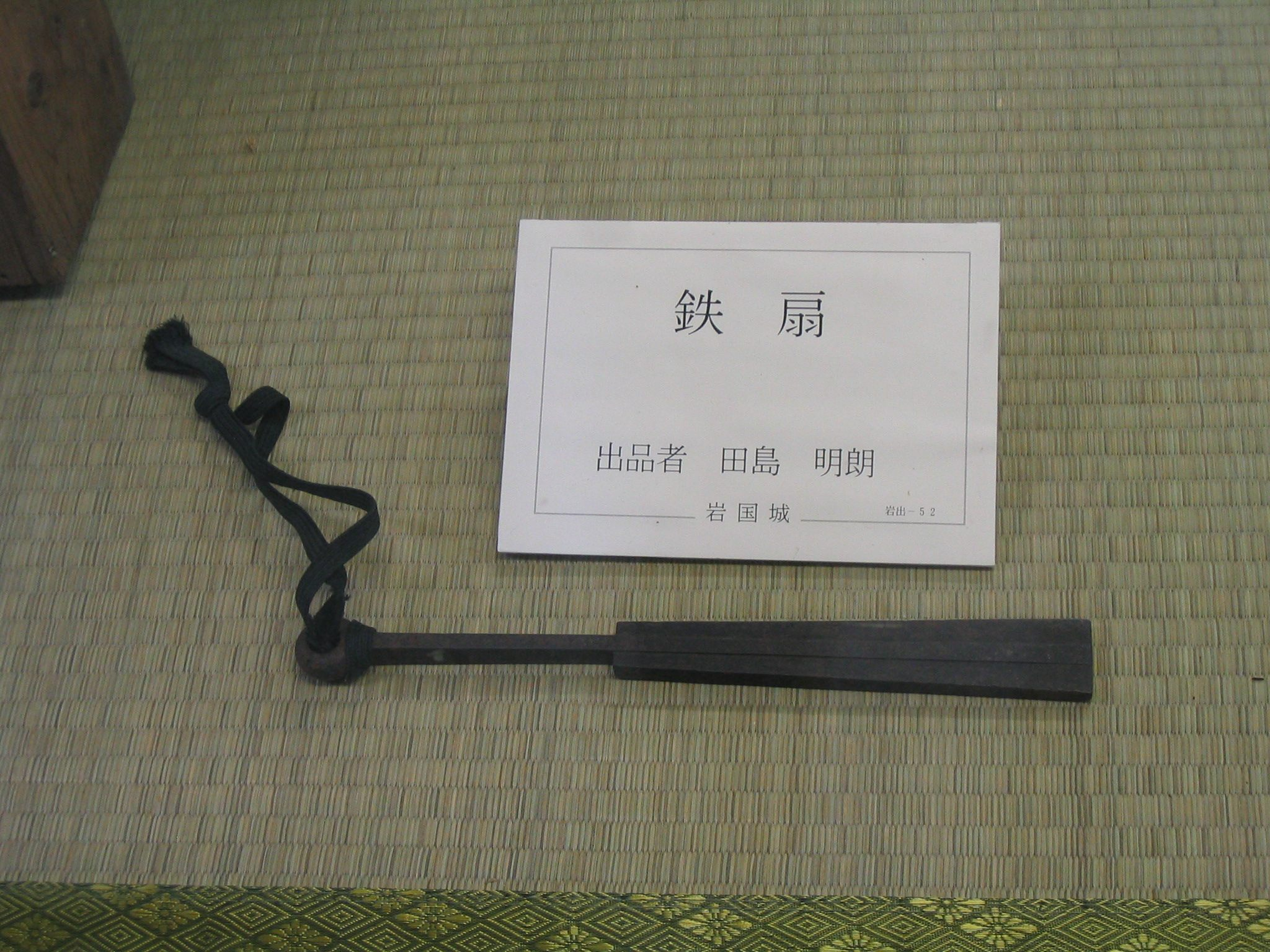 A tessen (iron fan), on display in Iwakuni Castle, Japan photographer = uploader